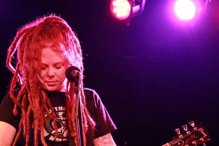 Cheryl Lyndsey playing guitar live in The Carrions at El Cid, Los Angeles, CA in 2012.